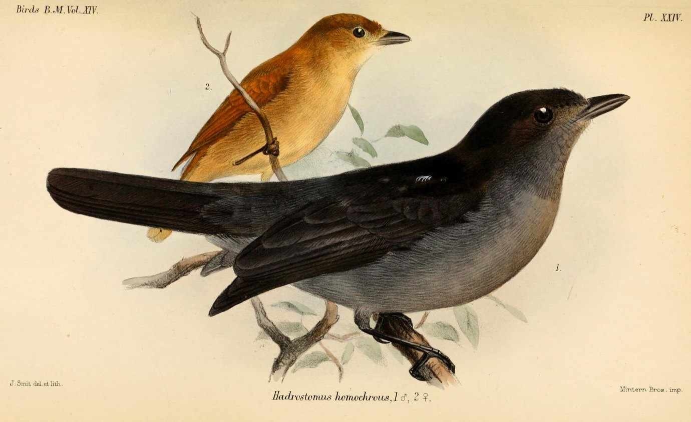 Hadrostomus homochrous = Pachyramphus homochrous, One-coloured Becard